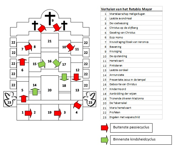 Scheme stories and reading direction Retablo Mayor Toledo